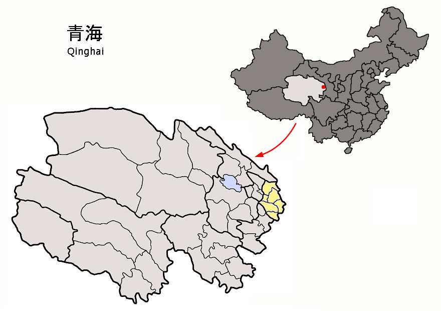 Location of Haidong Prefecture (yellow) within Qinghai province of China Map drawn in september 2007 using various sources, mainly : Qinghai province administrative regions GIS data: 1:1M, County level, 1990 Qinghai Counties map from "Plateau Perspectives" (the limits of some county-level subdivisions may not be accurate)